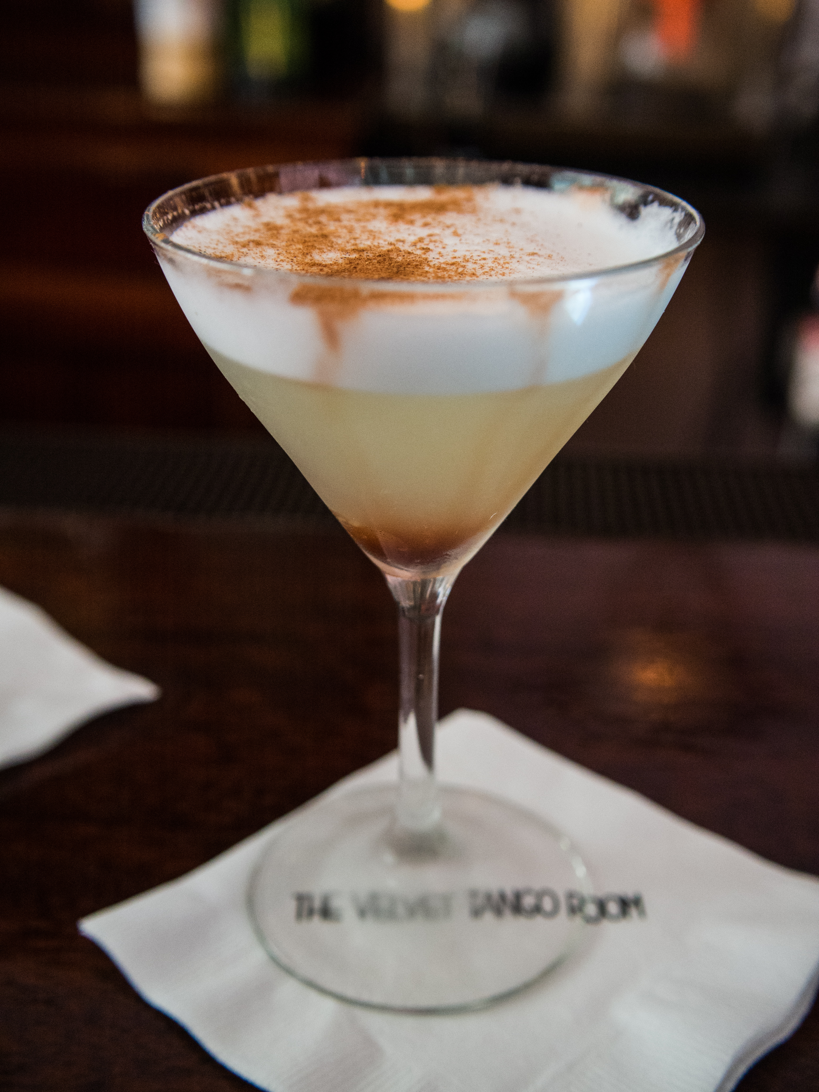 The Pisco Sour cocktail at the Velvet Tango Room